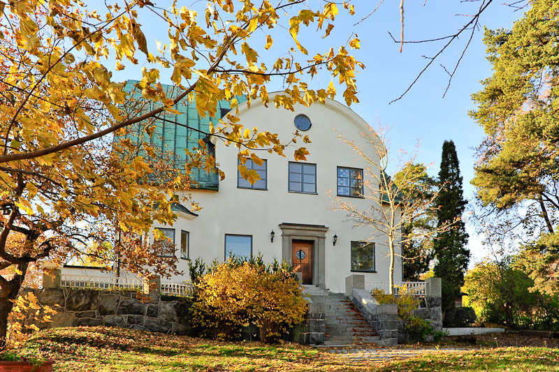 Picture of Villa Bergtomta